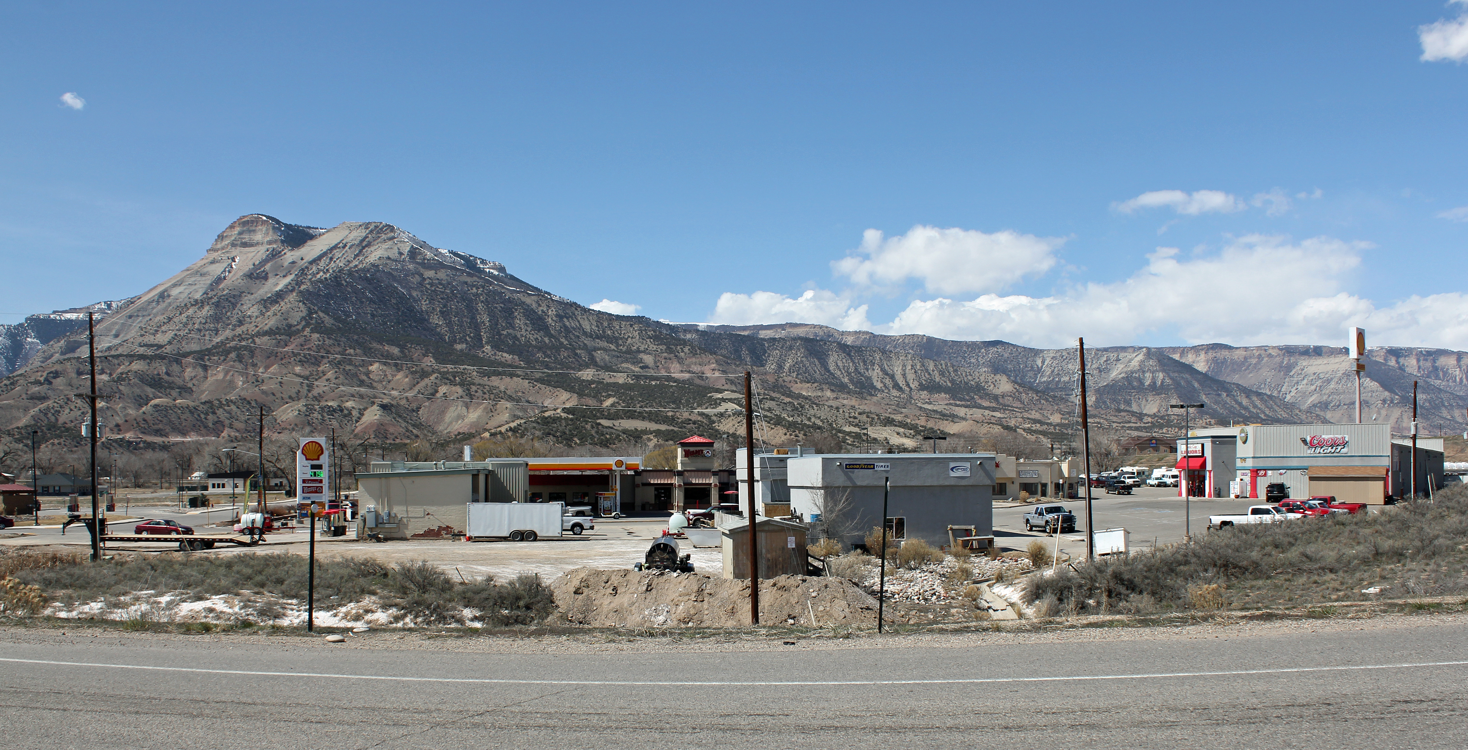 A view of part of the town of Parachute, Colorado. The picture was taken from a car on Cardinal Way near its intersection with South Rail Road Avenue.